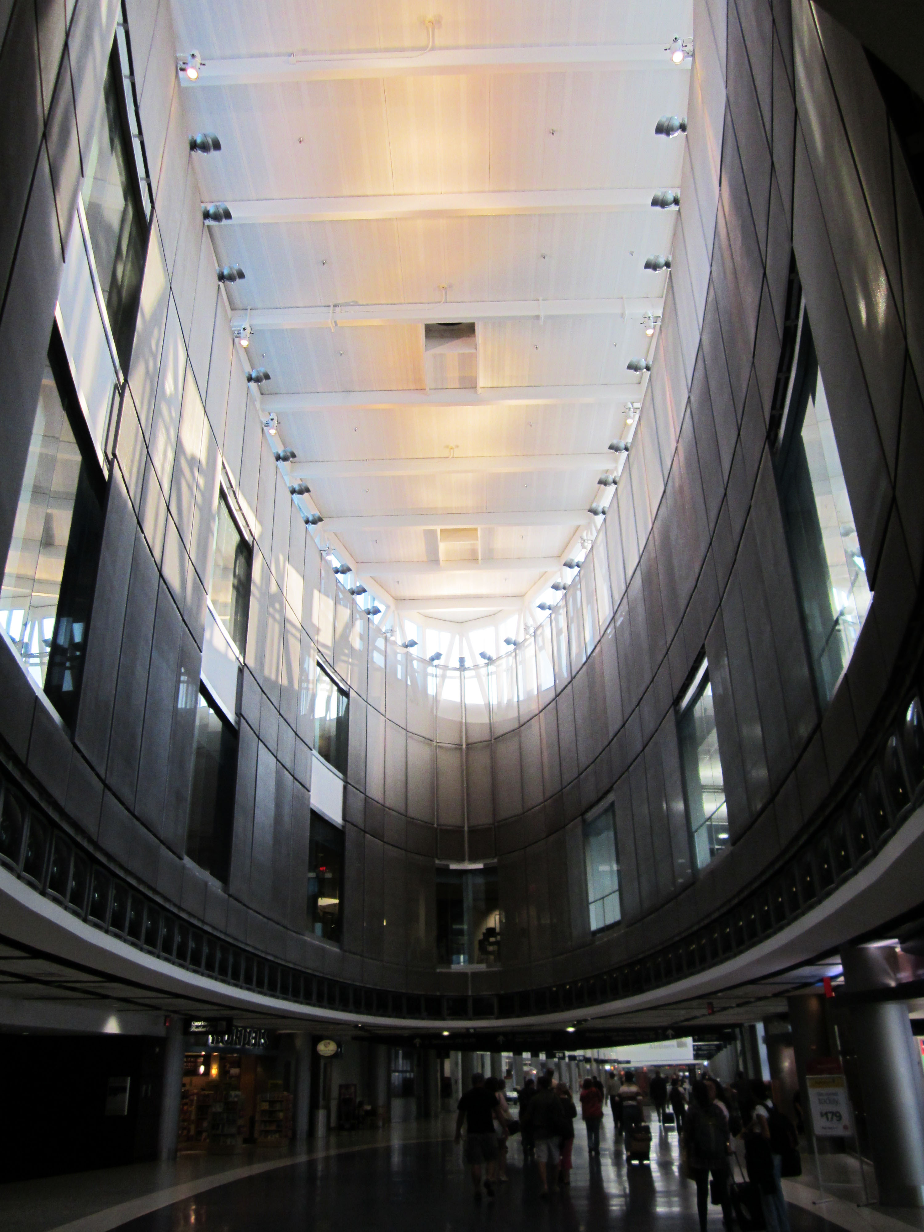 George Bush Airport Terminal E